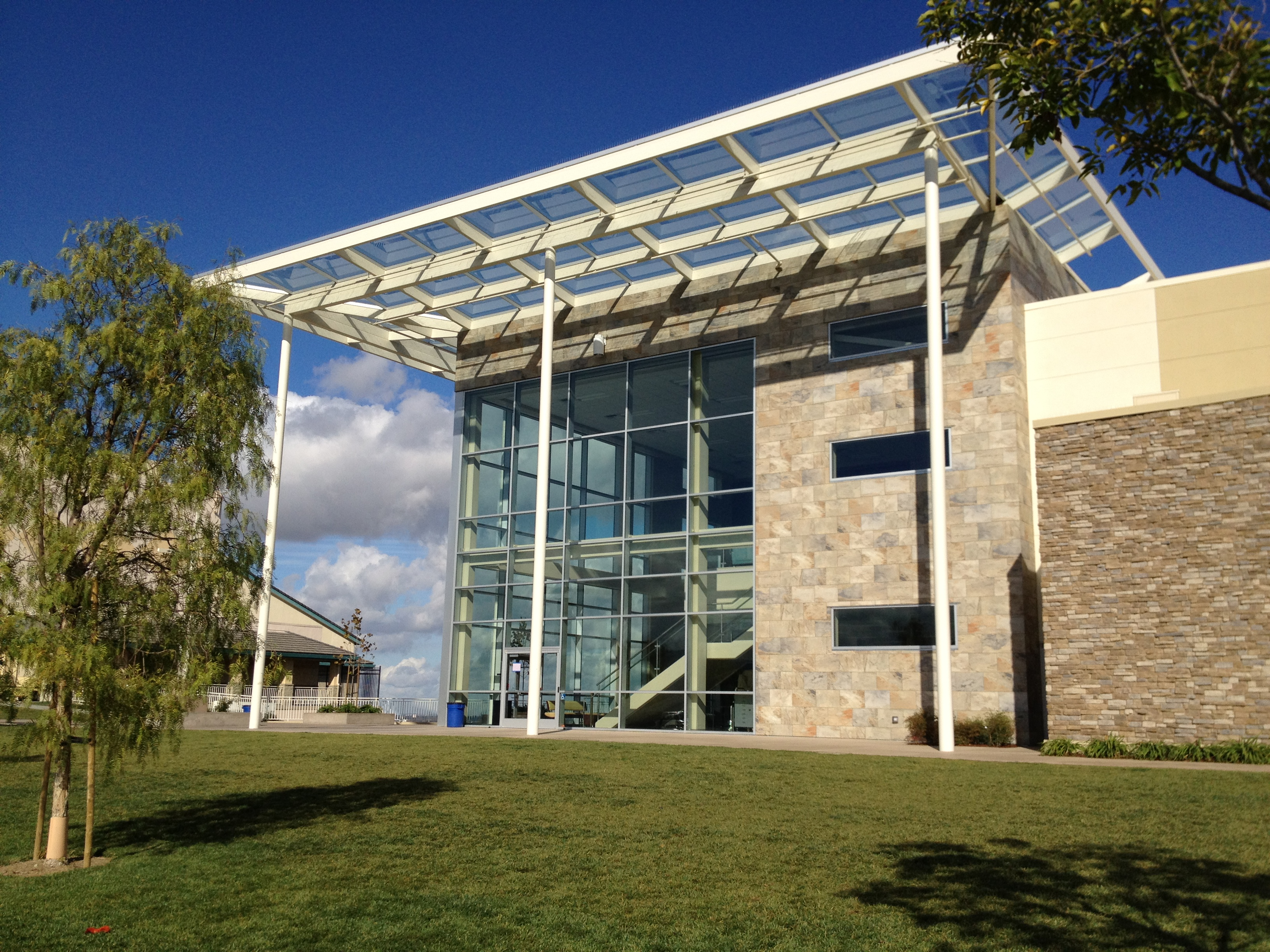 Valley Christian Schools Conservatory Building